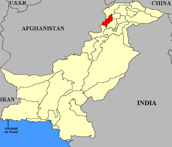 Approximate location of the former princely state of Dir within Pakistan